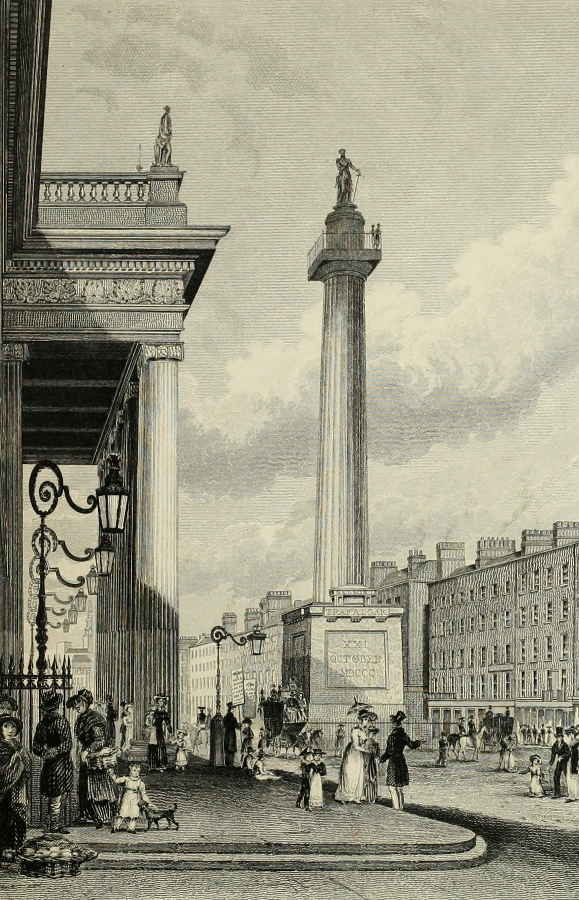 Nelson Pillar, Dublin taken from: Ireland Illustrated: From Original Drawings by George Newenham Wright. Published 1831 by H. Fisher, son, and Jackson. OCLC: 788633